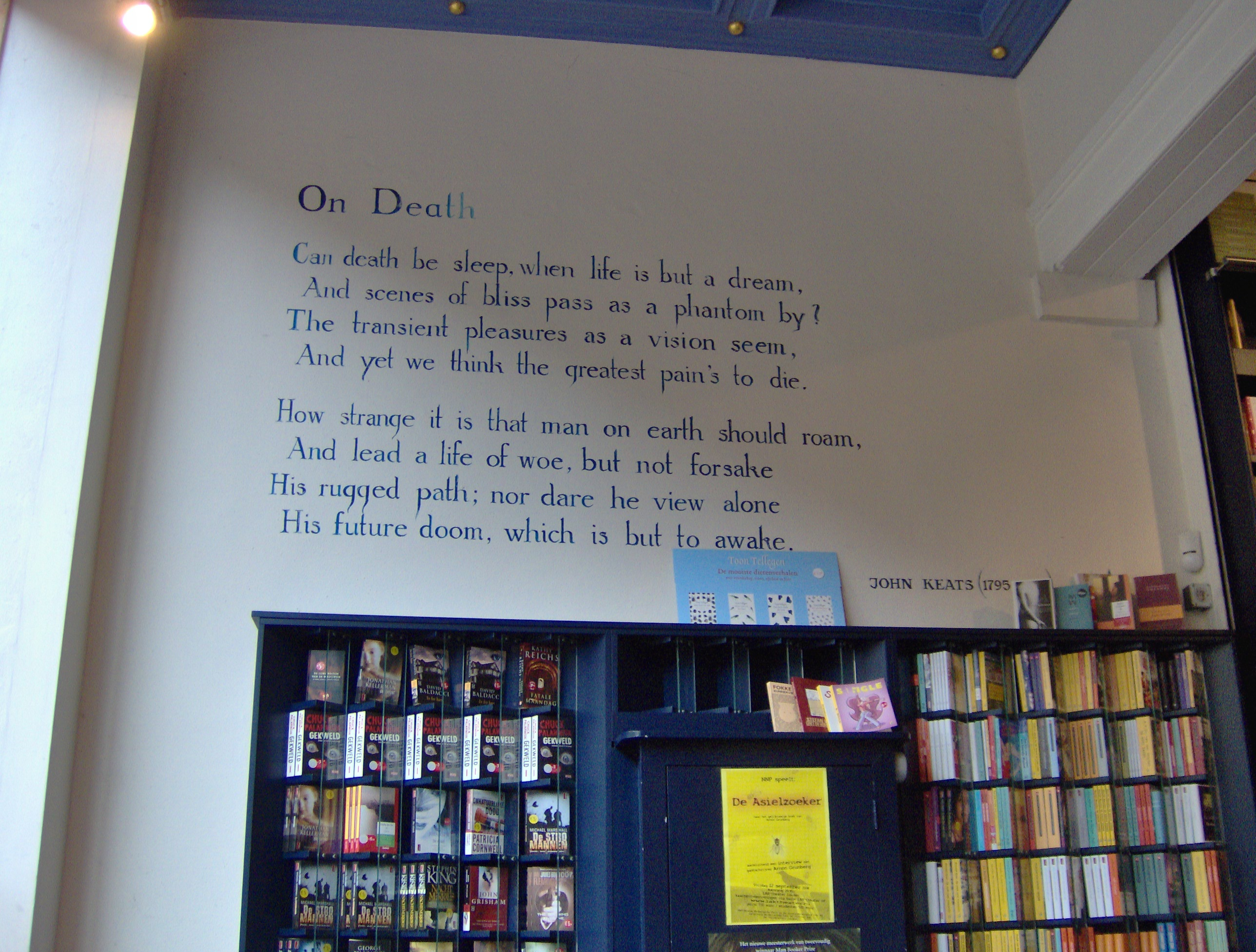 The poem On death of the English poet John Keats on a wall inside the building (a book shop) at the Breestraat 113 in Leiden, The Netherlands